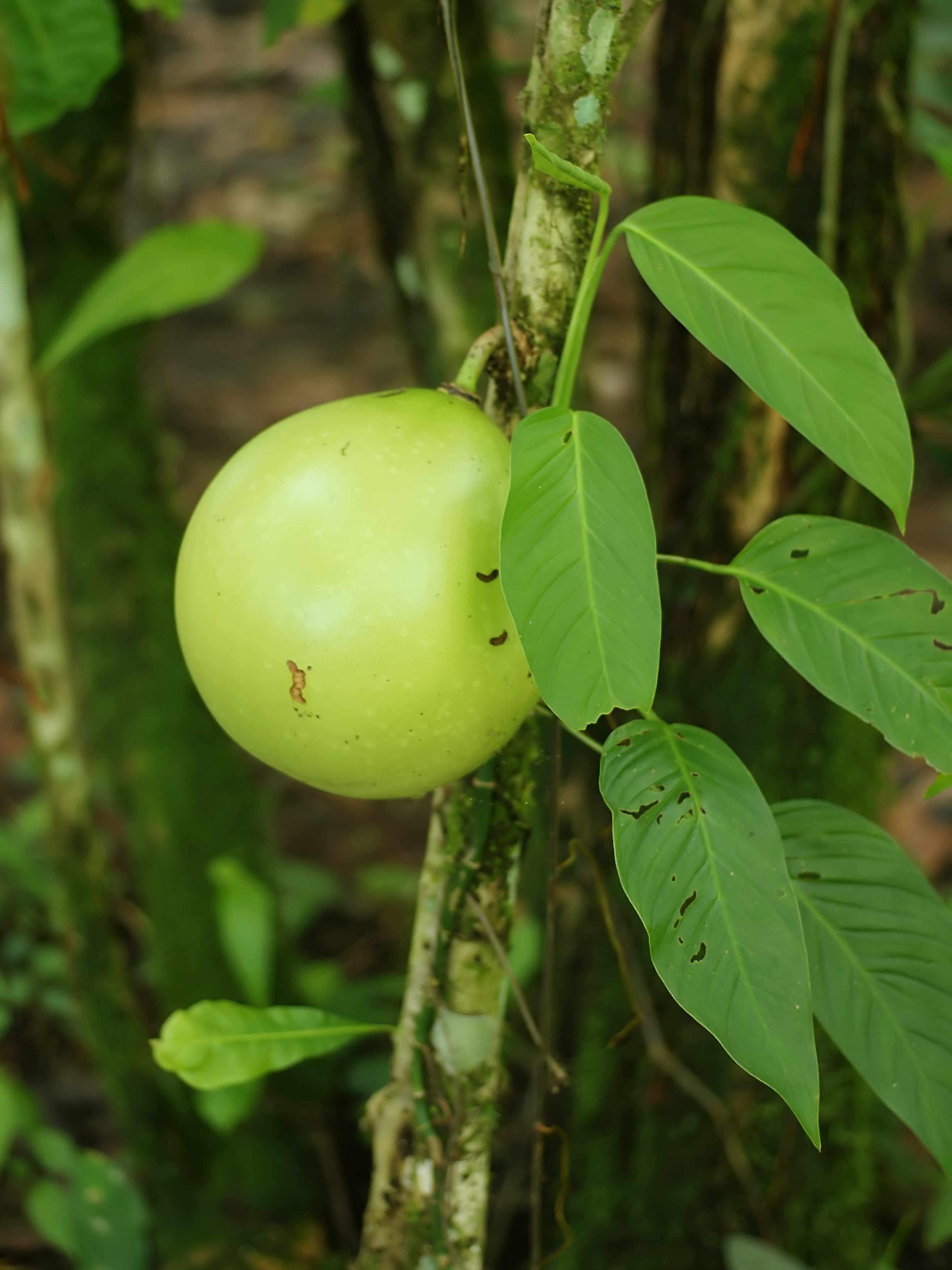 Calabash tree near Puerto Viejo de Sarapiqui, Costa Rica(stem with fruit) - the foliage is from an Araceae species